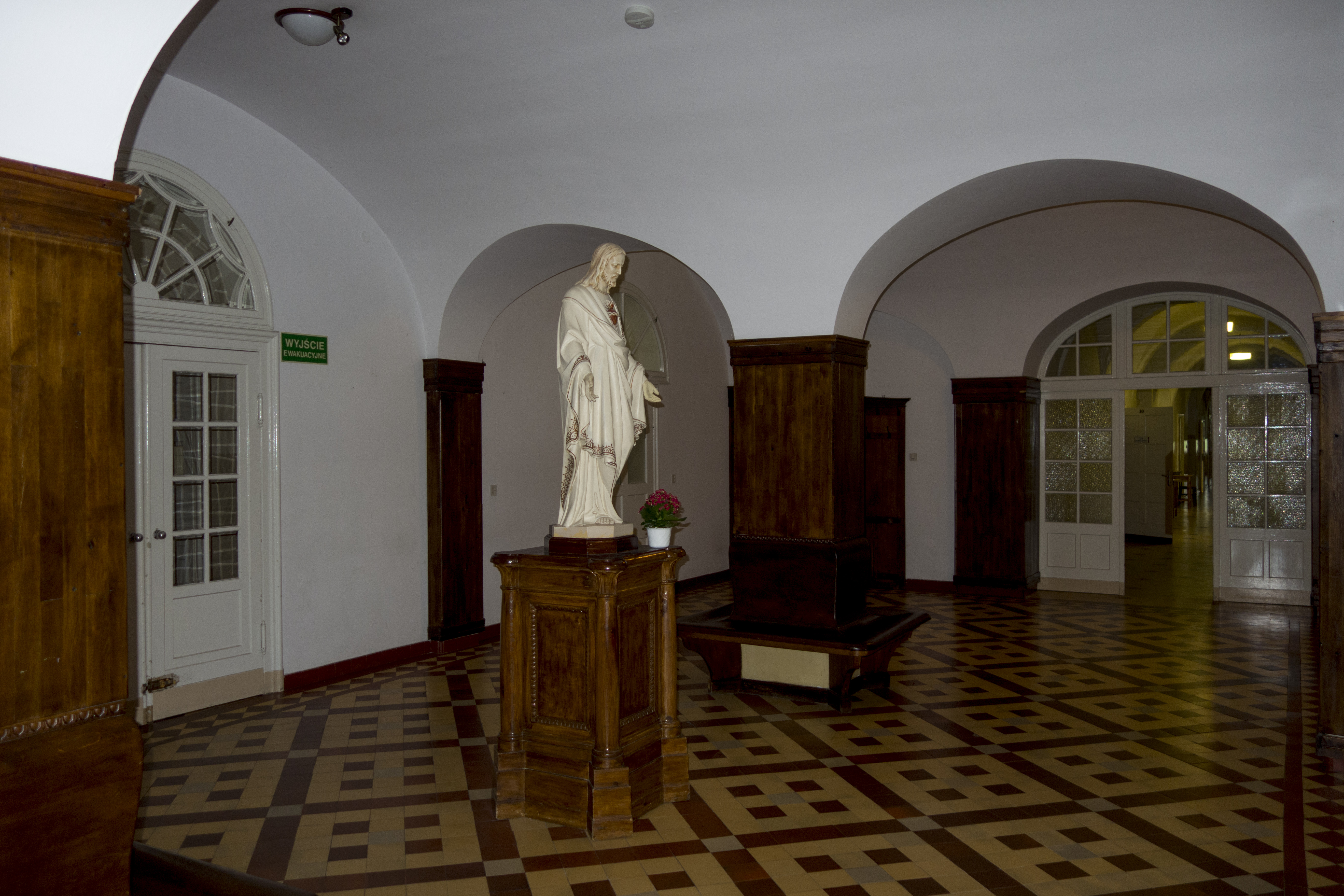 Convent of Society of the Sacred Heart in Pobiedziska (Poland) - the entrance hall